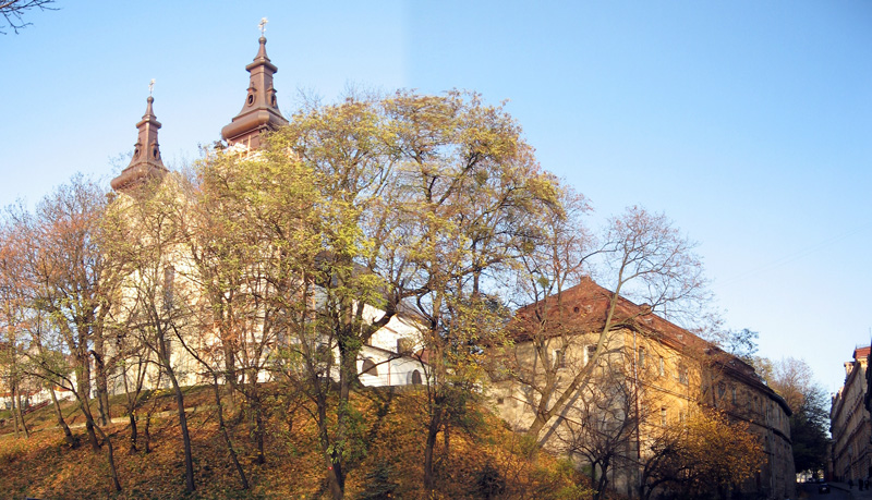 Carmelite Church, Lviv